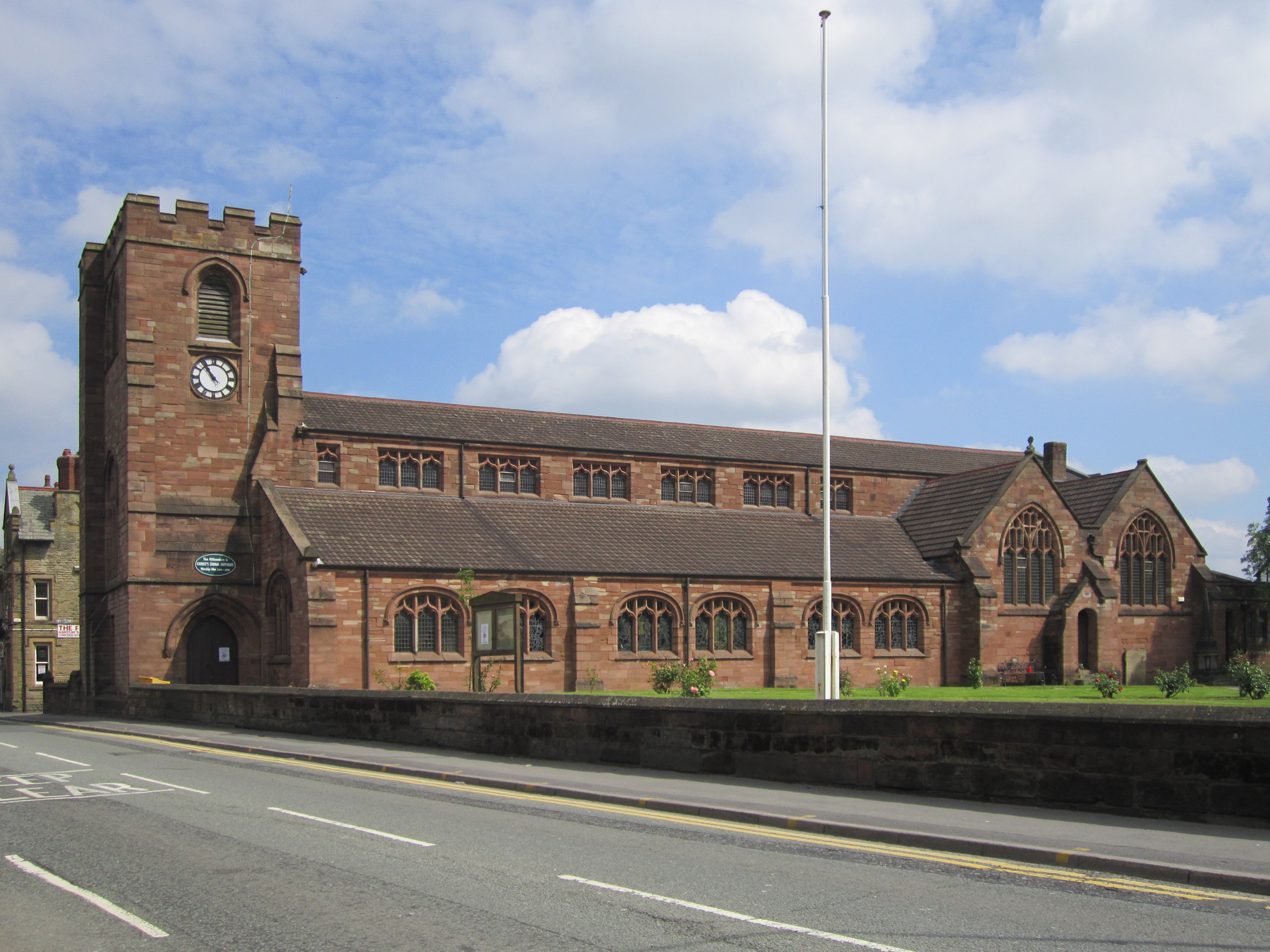 St Thomas Church, Ashton-in-Makerfield, Greater Manchester, England. Seen from the south.